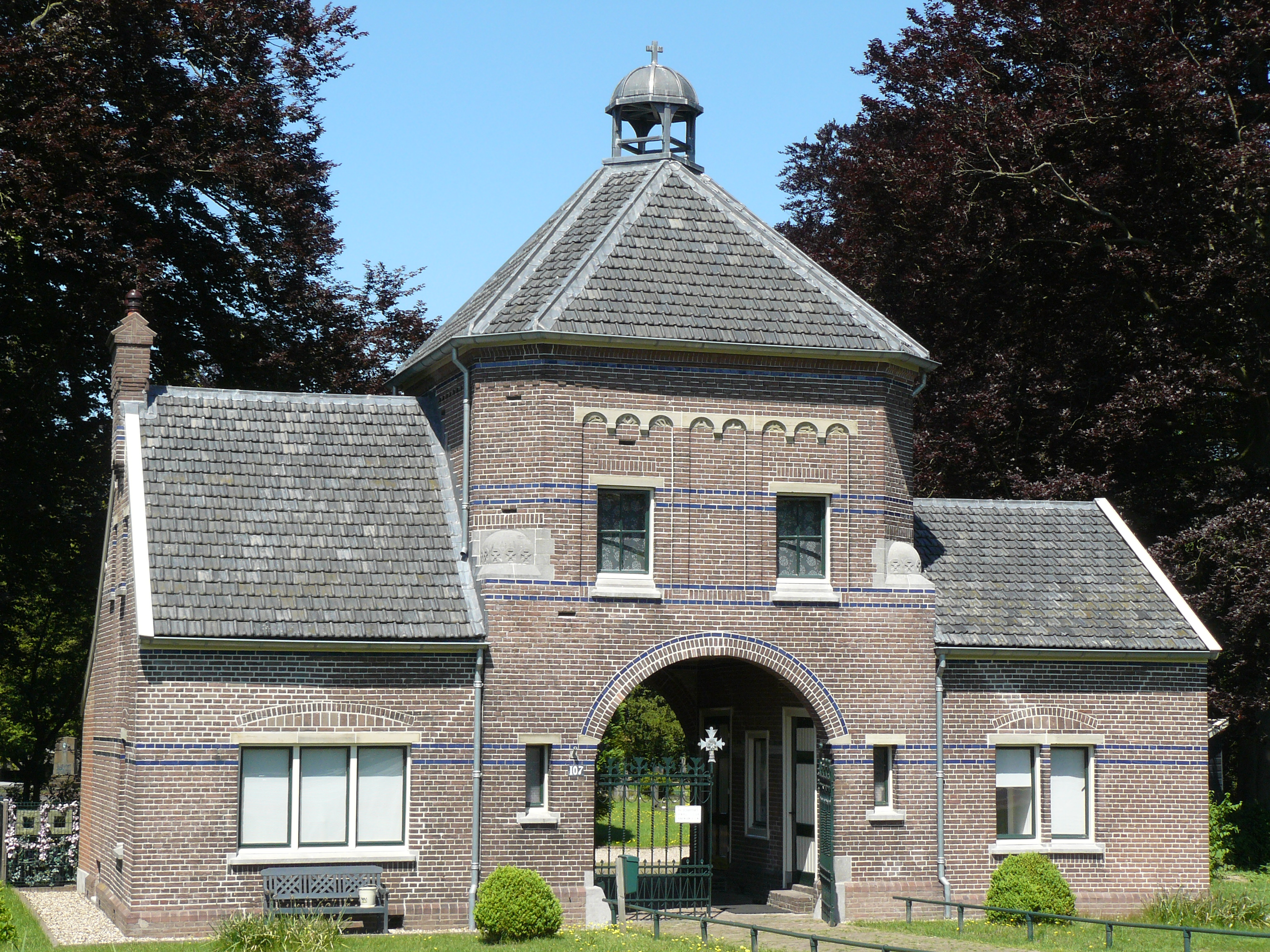 Gatehouse in brickstone from 1902 belonging to the Catholic cemetery on the Warnsveldseweg 107, Zutphen